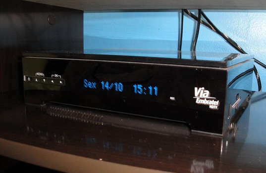 Decoder HDTV Via Embratel